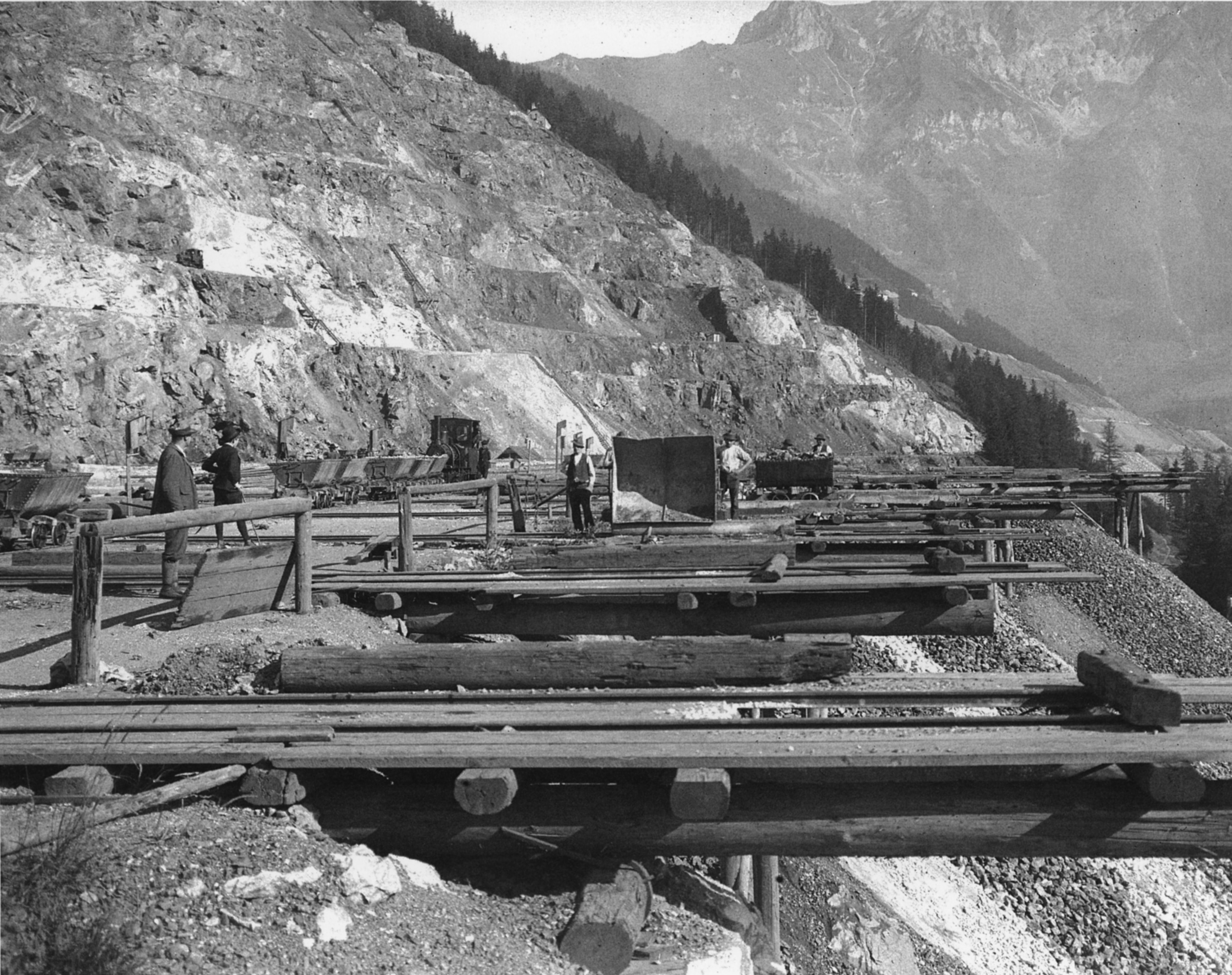 Petschar, Friedlmeier, Steiermark in alten Fotografien, Ueberreuther Verlag Wien. Scanprojekt Community Projektbudget 2012 This scan or this PDF-file was created within the GLAM-project Bookscanning, supported by Wikimedia Germany and Wikimedia Austria as a part of the community-project to capture books, documents and pictures which are not eligible to copyright or for which the copyright has expired. This document describes or depicts an object which is located in Austria today. Texts are written German language. Send requests for uncompressed scans to Hubertl. This work is in the public domain in its country of origin and other countries and areas where the copyright term is the author's life plus 100 years or less. You must also include a United States public domain tag to indicate why this work is in the public domain in the United States. This file has been identified as being free of known restrictions under copyright law, including all related and neighboring rights.